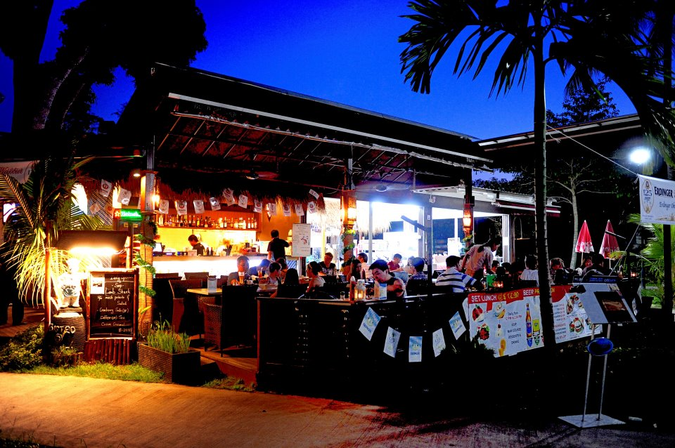 Image of Bistro@Changi at night